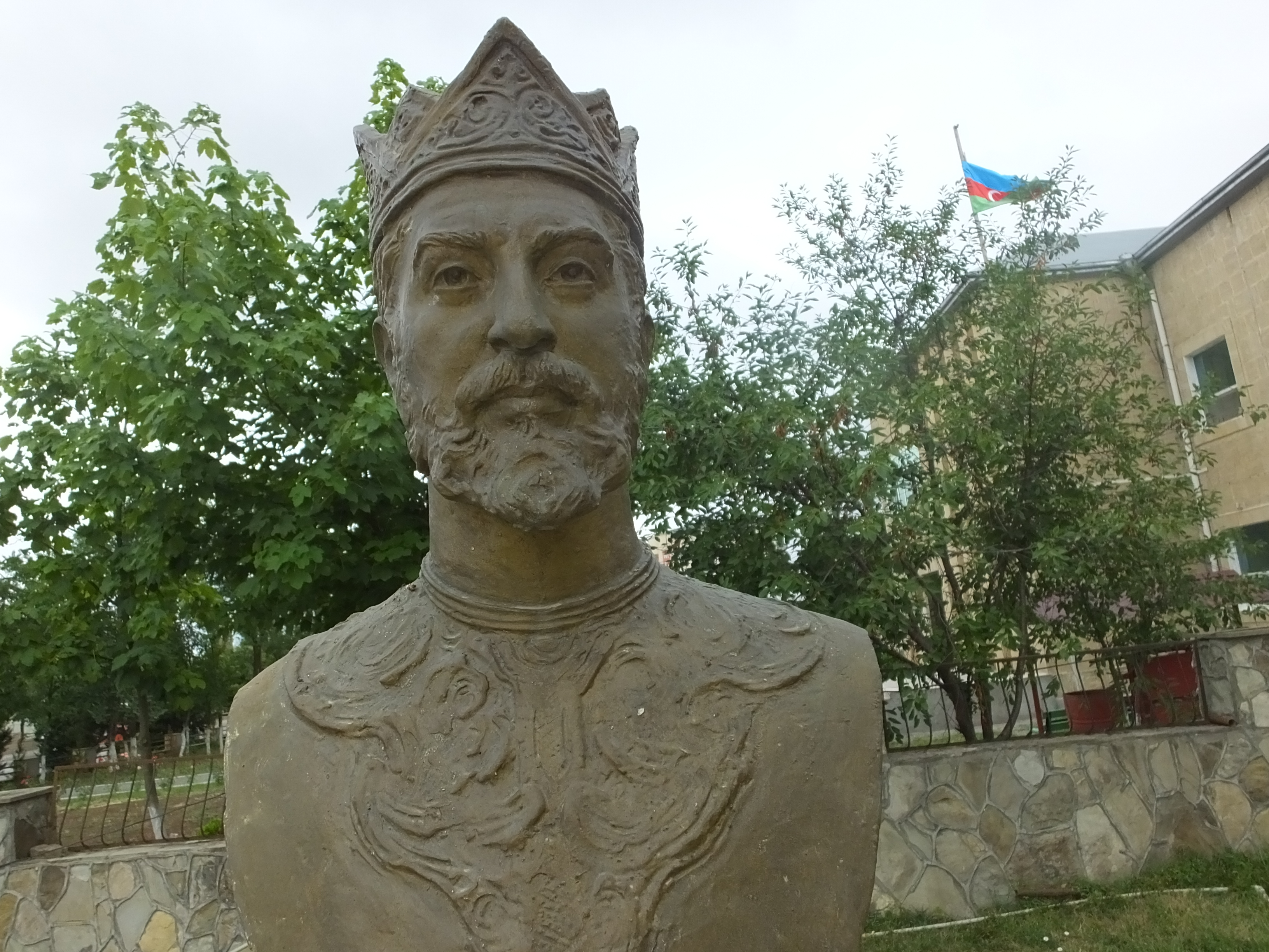 Picture of in Museum of History and Ethnography in Shamakhi taken by Aykhan Zayedzadeh during 2019 Summer Wikicamp Azerbaijan